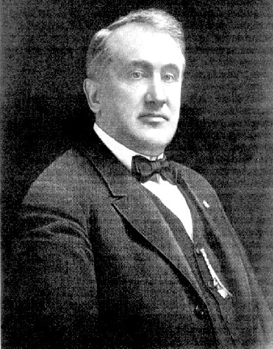 Picture of Frank Hamilton Short